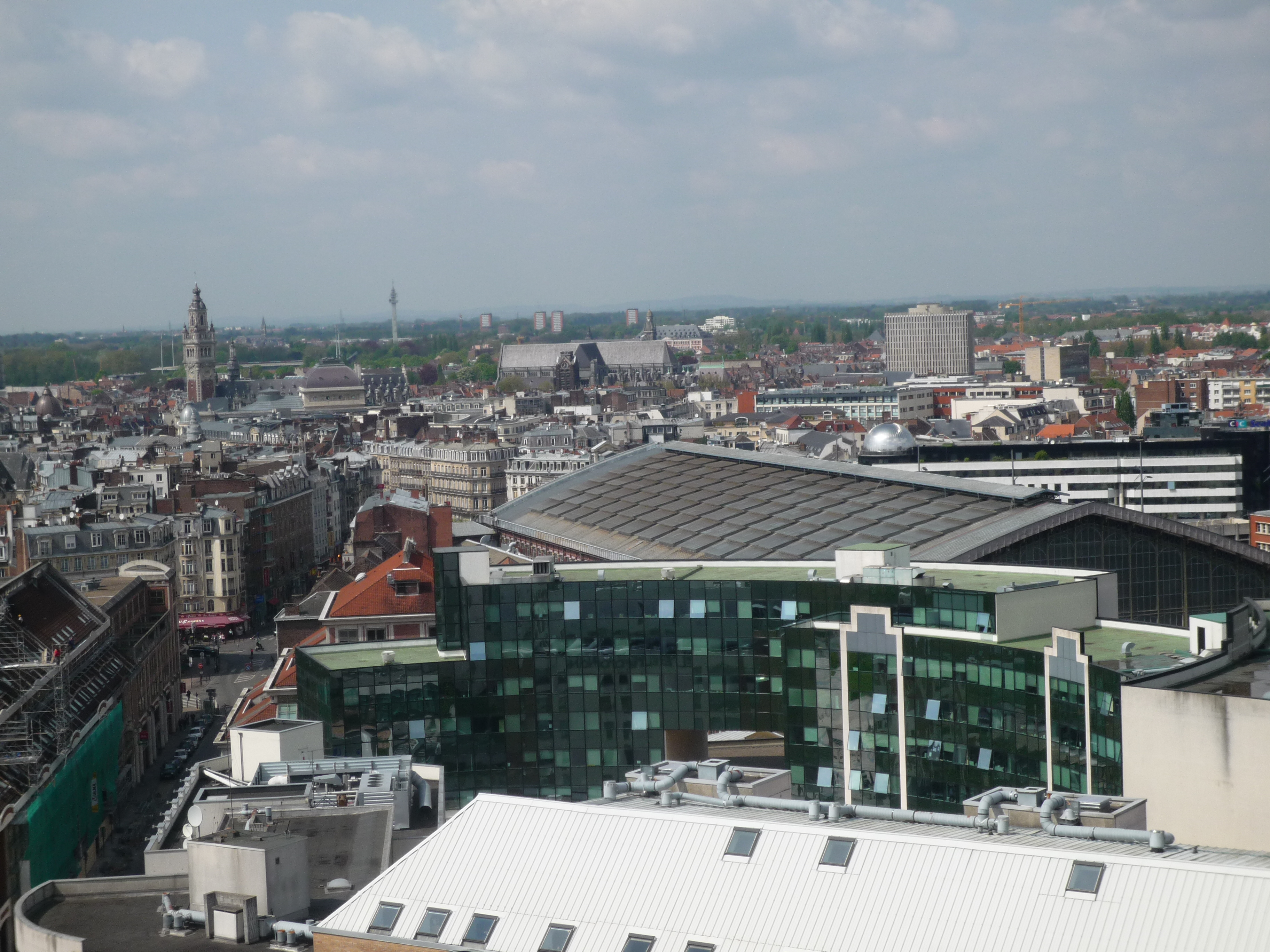 Aerial view of Lille, France.